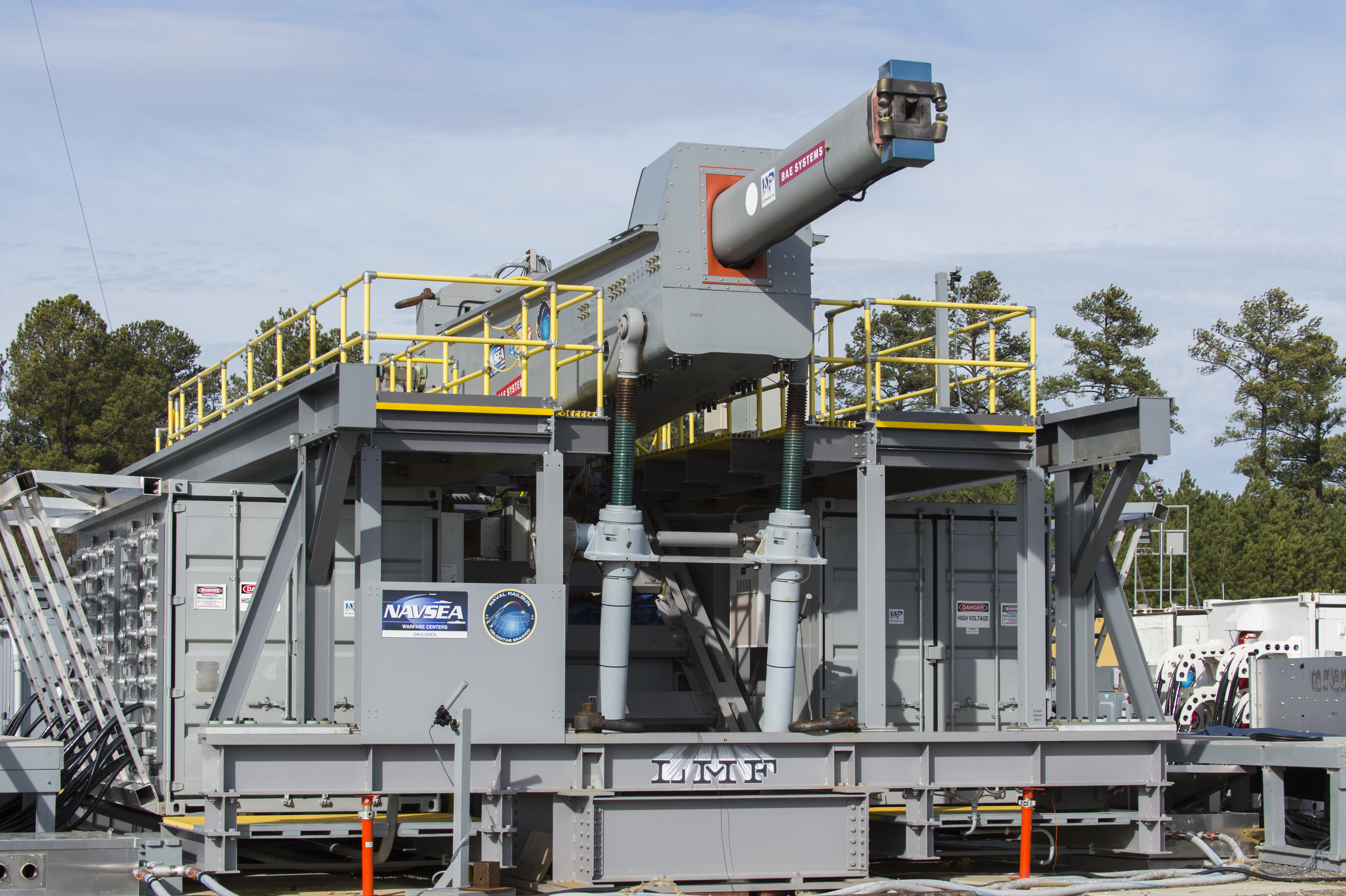 170112-N-PO203-142 DAHLGREN, Va. (Jan. 12, 2017) The Office of Naval Research (ONR)-sponsored Electromagnetic Railgun (EMRG) at terminal range located at Naval Surface Warfare Center Dahlgren Division (NSWCDD). The EMRG launcher is a long-range weapon that fires projectiles using electricity instead of chemical propellants. (U.S. Navy photo by John F. Williams/Released)